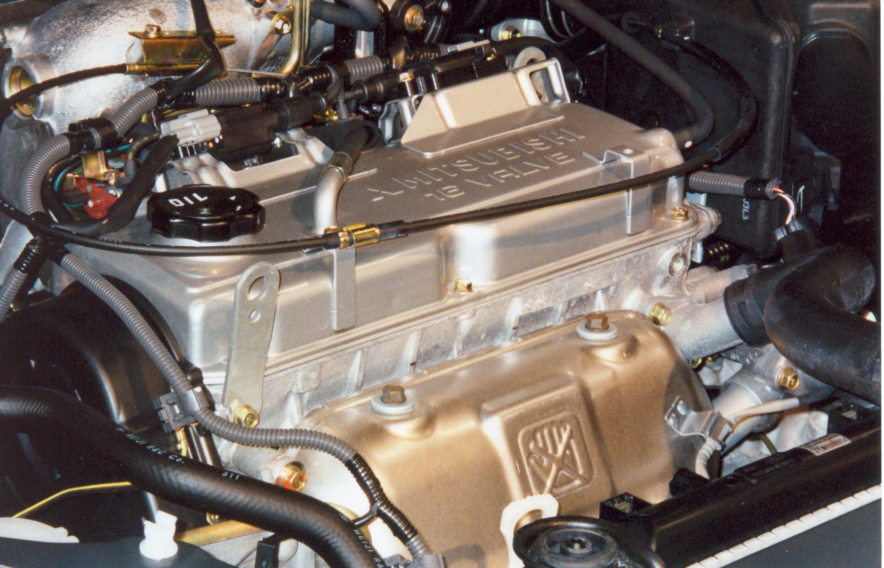 Mitsubishi 4G94 Photo supplied by (Smlive903) February 2004. (c) Smlive903.